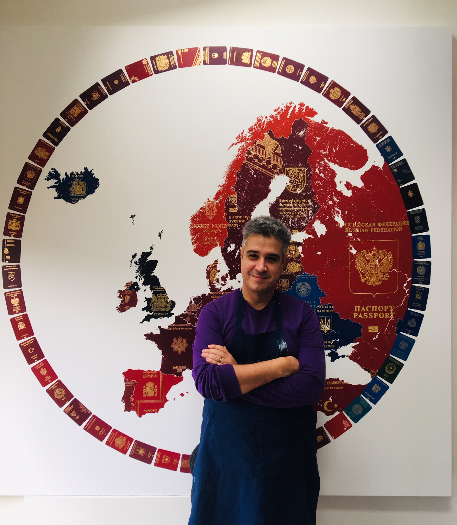 Yanko Tihov is an artist most known for his series of Passport Maps. This image is taken in his studio next to his Europe Passport Map painting.